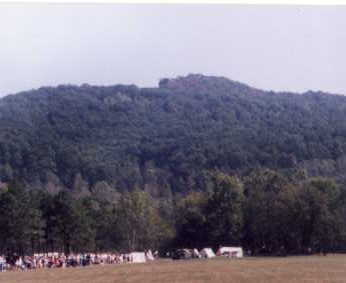 Author: Thomas Caulley Photo taken by author, 1998